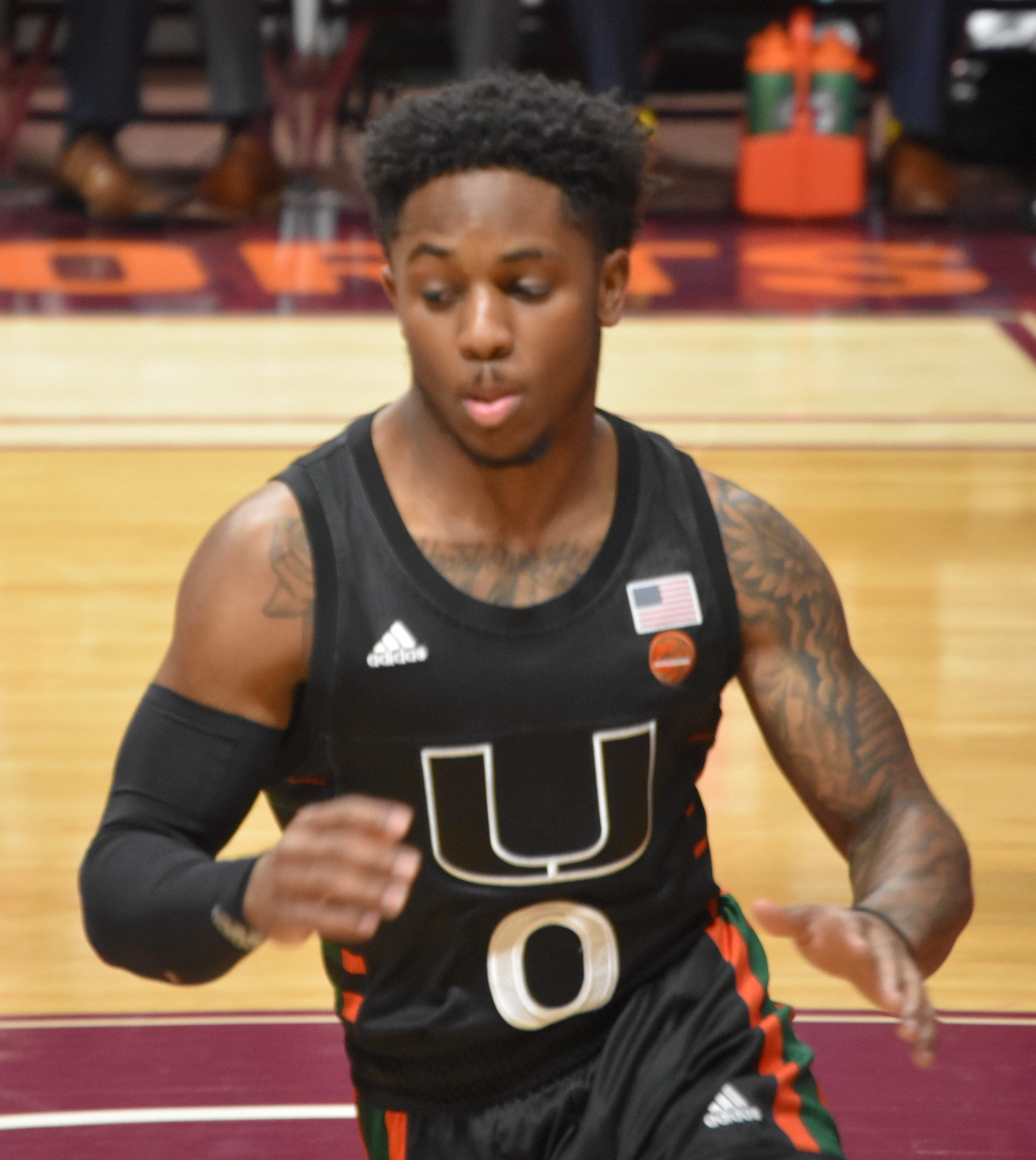 Miami Guard Chris Lykes cuts across the paint early in the Miami Game at Cassell Coliseum.